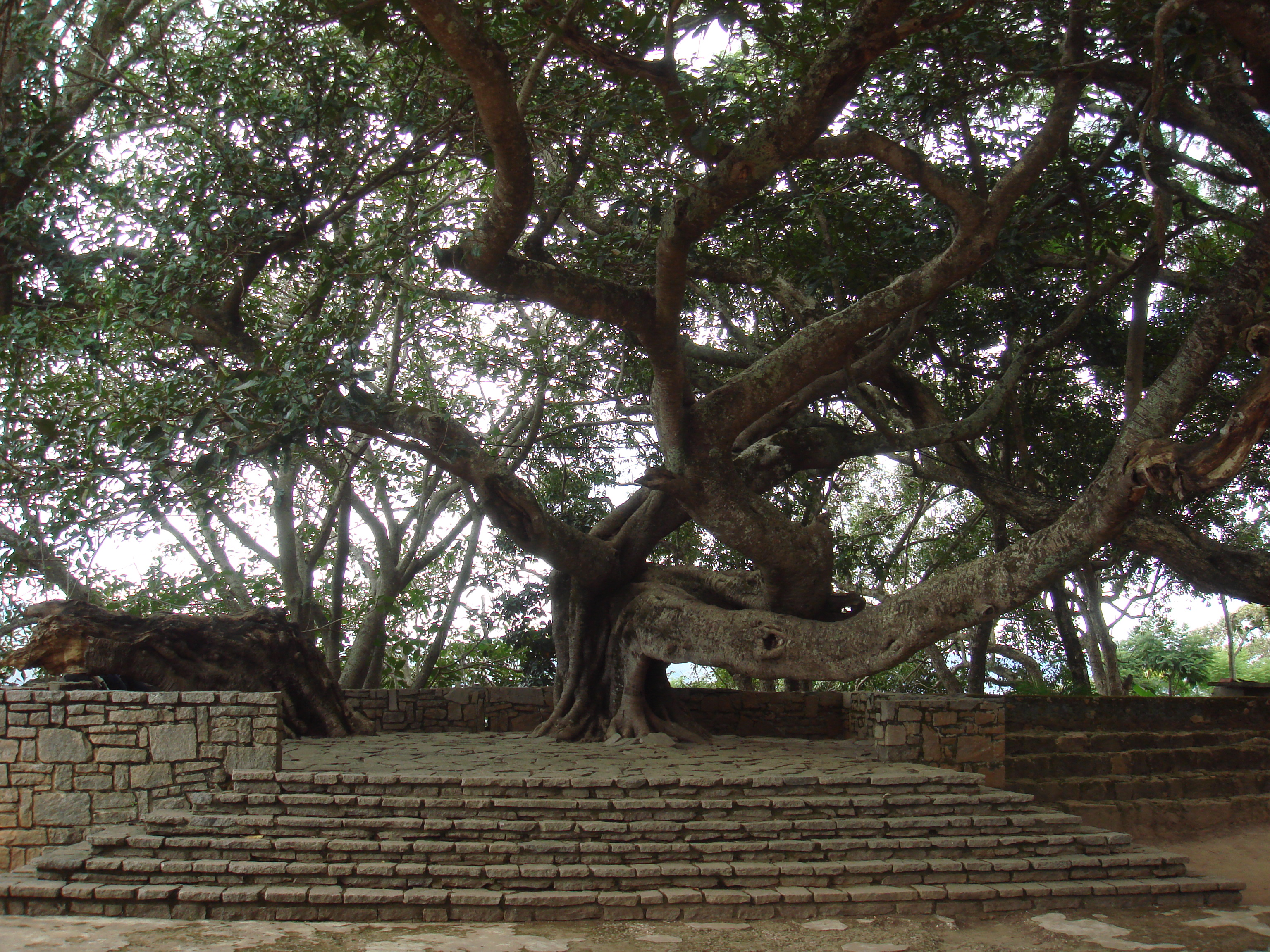 The Amotana, one of the three sacred trees. Ambohimanga, Madagascar